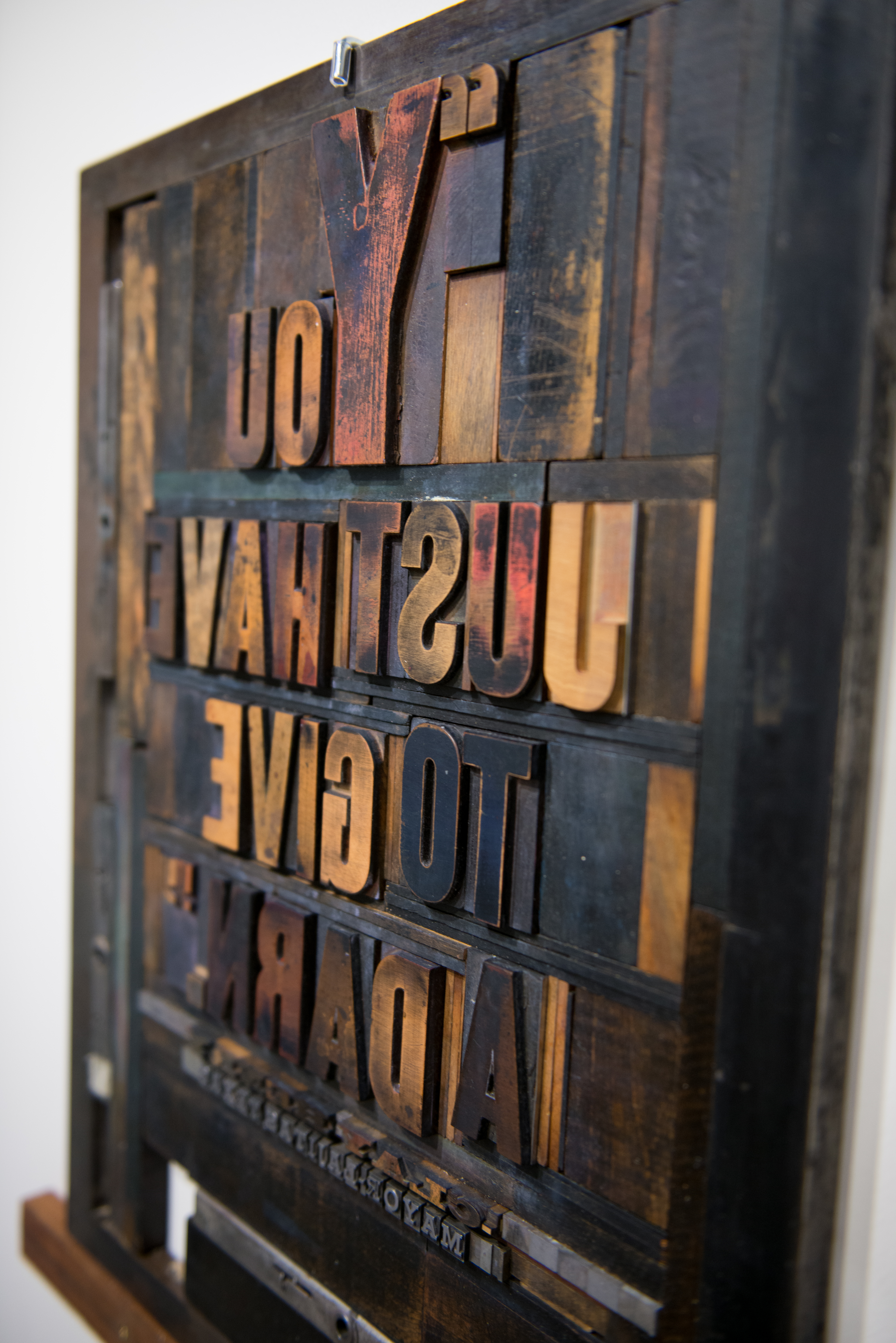 _15020-Virgil Scott Letterpress Exhibit 4677.jpg Virgil Scott Letterpress Exhibit at Texas A&M University–Commerce